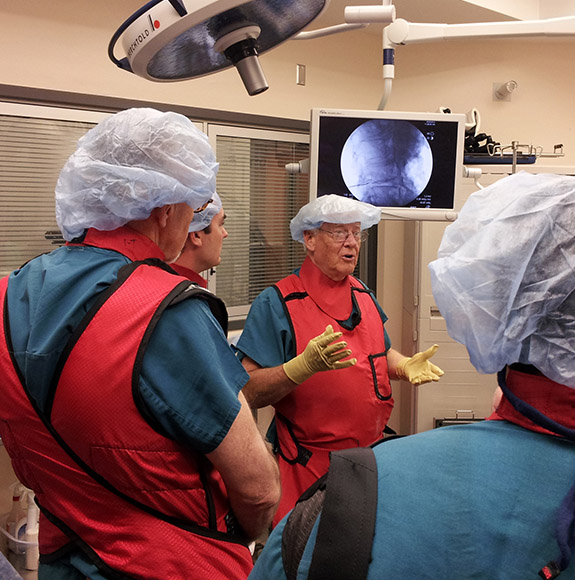 Gabor Racz, M.D., FIPP lecturing medical students before performing a procedure. Other information